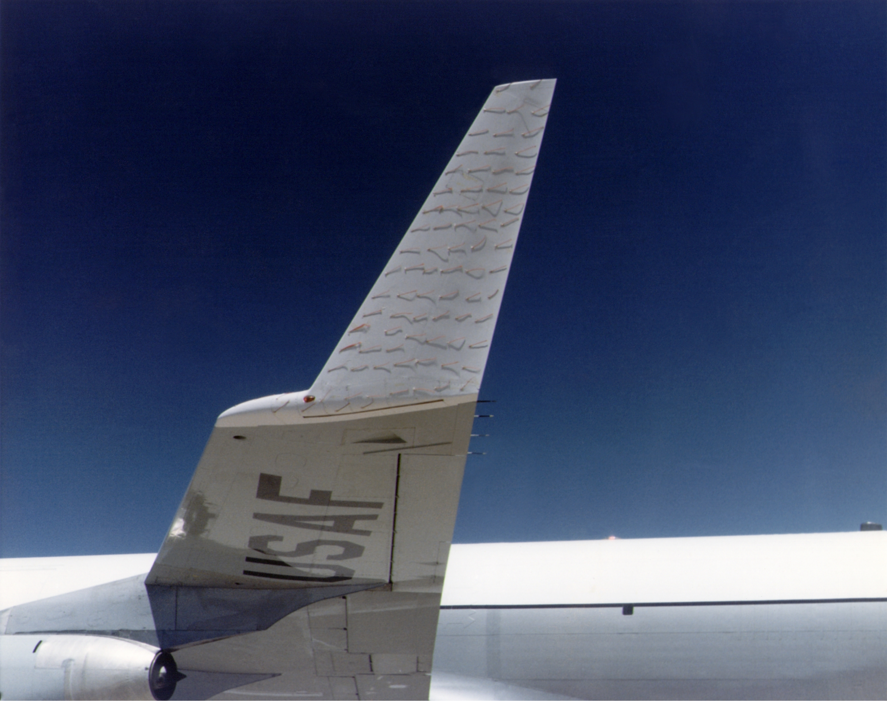 Winglet with attached tufts of an KC-135A during NASA Winglet study 1979. The tufts are needed to measure the airflow.